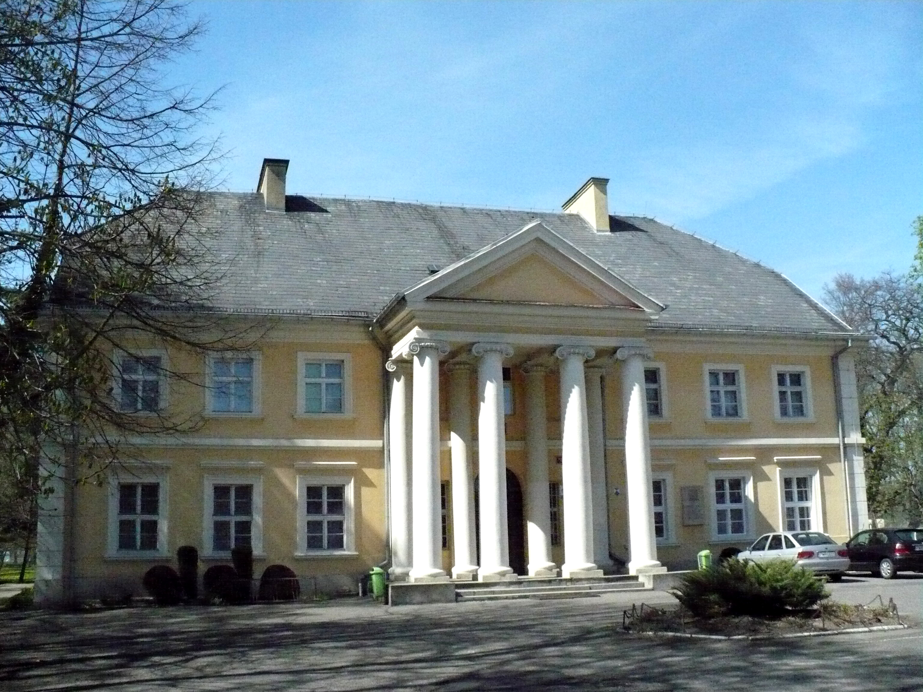 Wladyslaw Reymont's court. View from east side